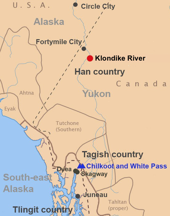 People and places around Klondike at time discovery of gold